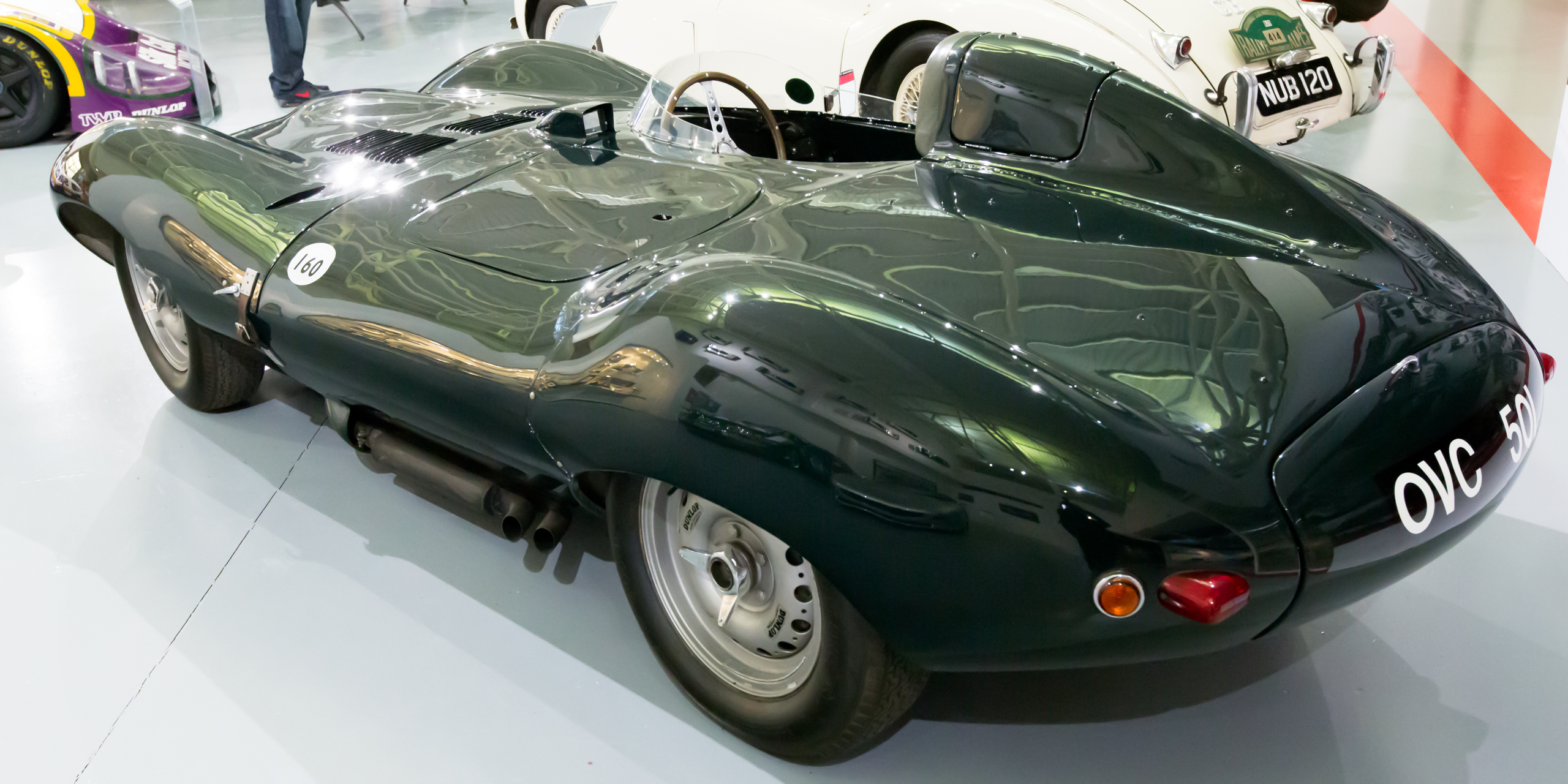 1954 Jaguar D-Type